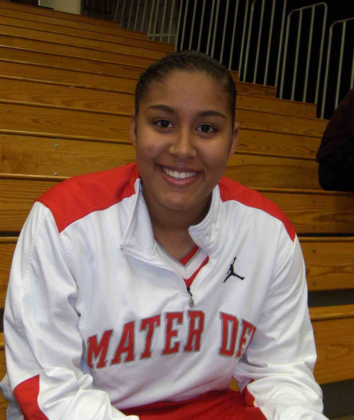 Image of Kaleena Mosqueda-Lewis taken at the Hoop Hall Classic at Springfield College 14 January 2011